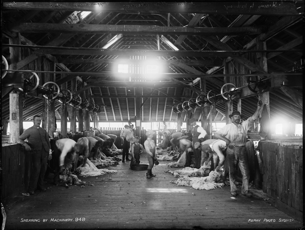 'Rural Life' Pictures from The Powerhouse Museum This file was posted to Flickr by The Powerhouse Museum (See the archive of their website for further information). Many thanks to the Powerhouse Museum for helping release this wonderful material. This tag does not indicate the copyright status of the attached work. A normal copyright tag is still required. See Commons:Licensing for more information.